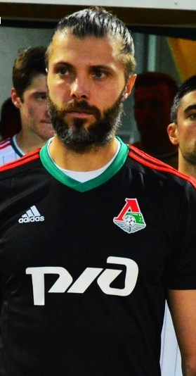 Ilya Abayev